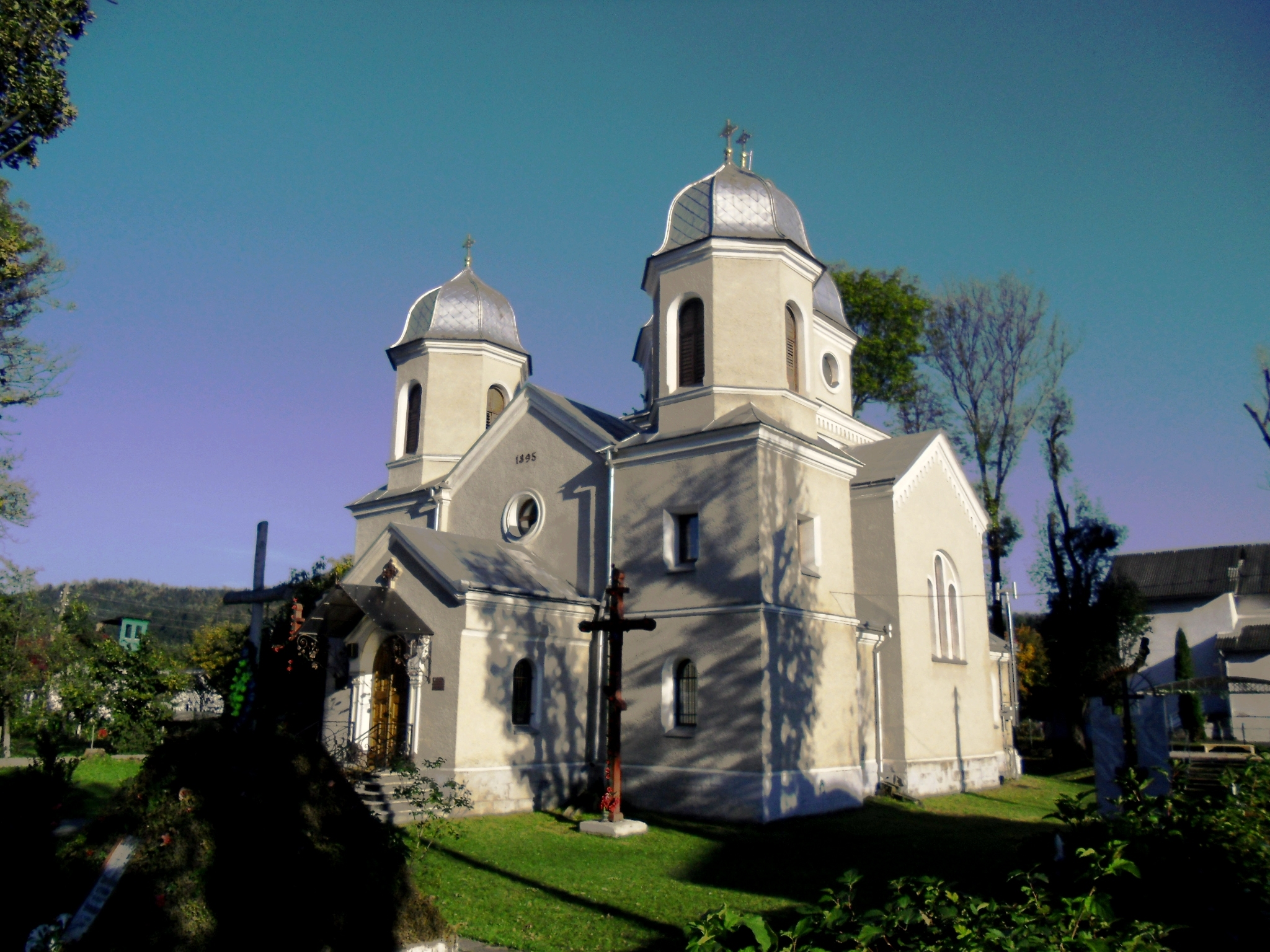 Greek Catholic Church of the Nativity Blessed Virgin Mary in Skole